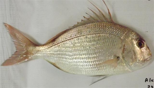 Pagrus caeruleostictus caught near Alexandria, Egypt. Juvenile individual 12,5 cm long.